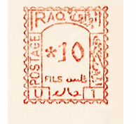 Meter stamp catalog image, Iraq type 1